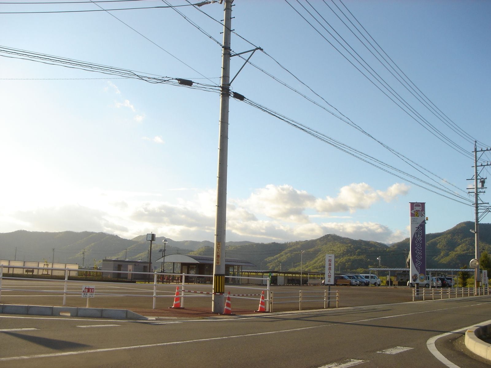 Ono Bus center(terminal)(大野バスセンター),Ono,Gifu,Japan(岐阜県大野町)で撮影